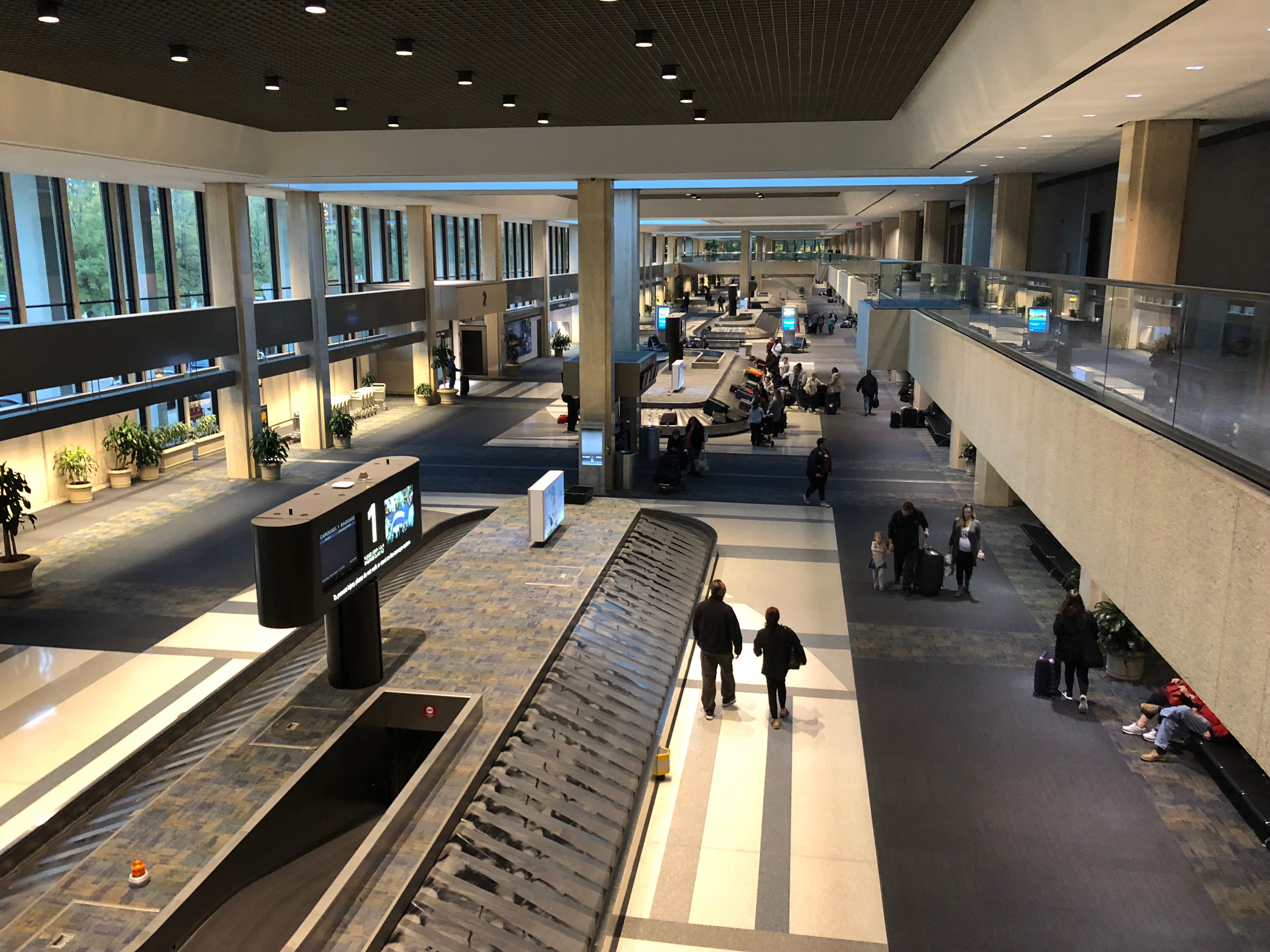 ORF!!